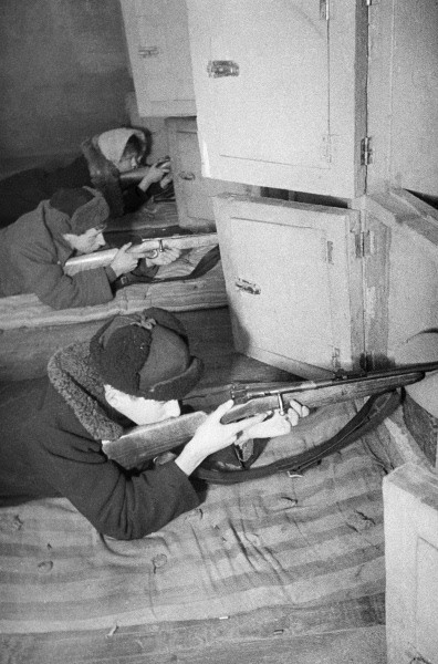 “Battle of Moscow: Universal Military Training for residents”. Battle of Moscow: Universal Military Training for Moscow militiamen held from October, 1941 through December, 1941.